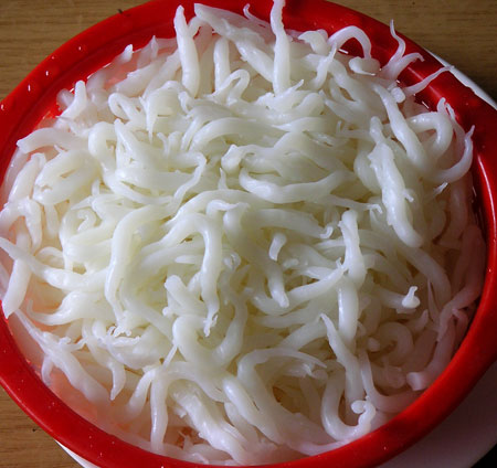 Lao Shu Fen / Lou Syu Fan / Short Rice Noodles Original photo by Ryan Du & Amy Chen. Permission to release this photo under GNU Free Documentation License (GNU FDL) & post it in Wikipedia obtained from Ryan Du & Amy Chen by Michelle Saw. If you wish to use this photo, attribute to "Ryan Du & Amy Chen, " Source: - 老鼠粉